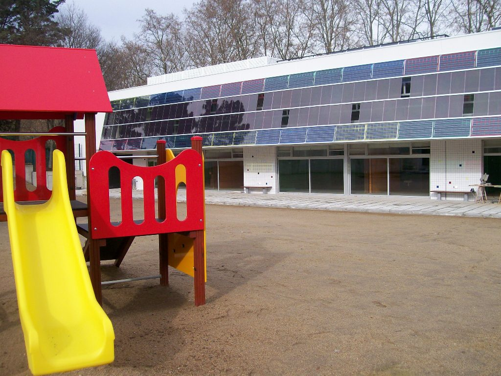 Municipal Nursery "El Blauet"